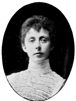 Image scanned from the book "Svenskt Porträttgalleri XX - Arkitekter, Bildhuggare, Målare m.fl. " ("Swedish Portrait Gallery XX - Architects, Sculptors, Painters, ") published 1901